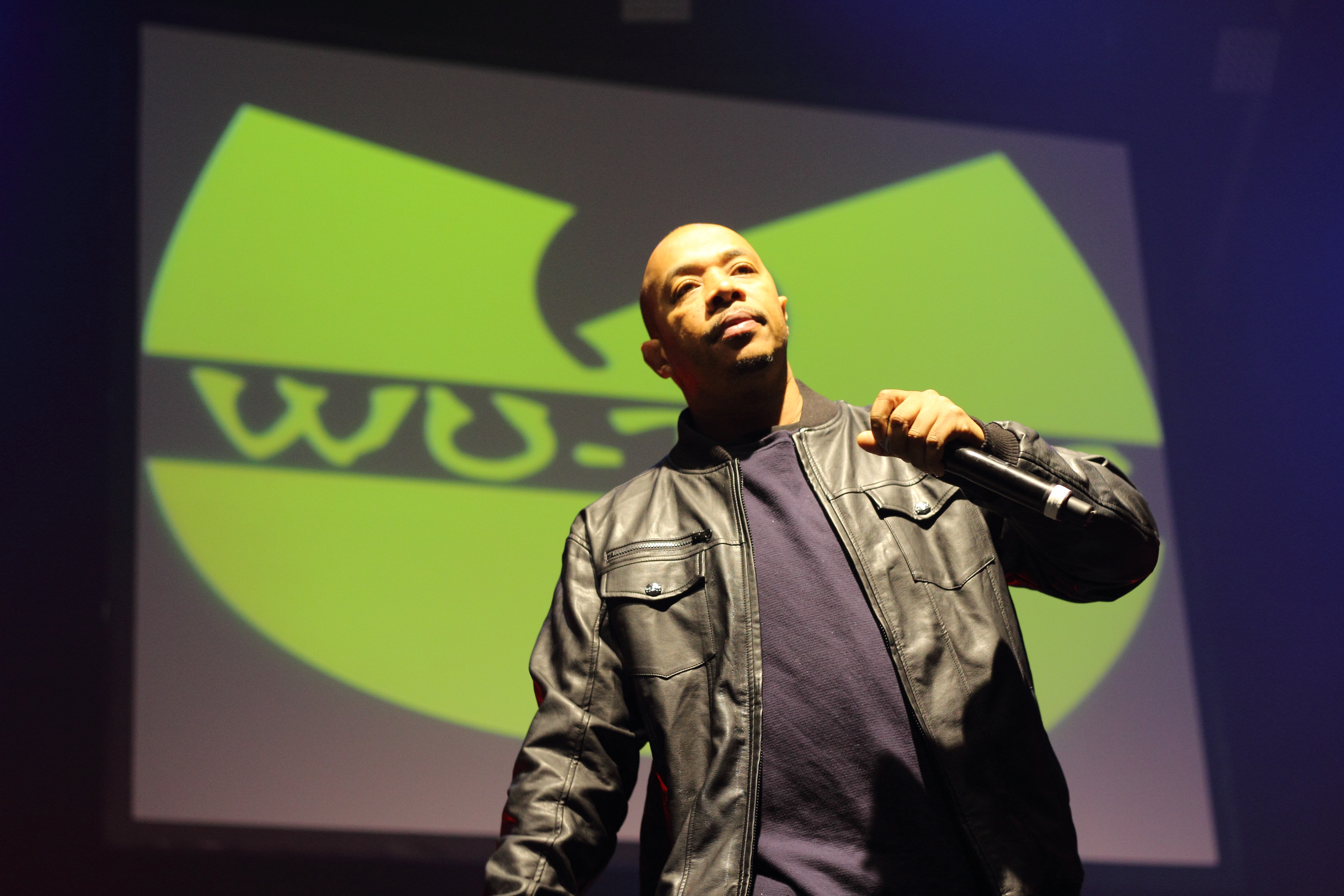 U-God in Paris, 2013